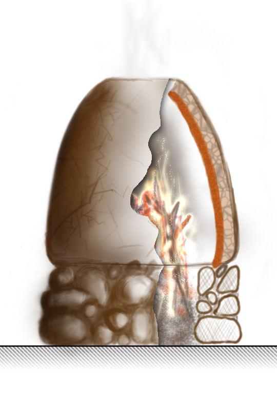 Tandoor